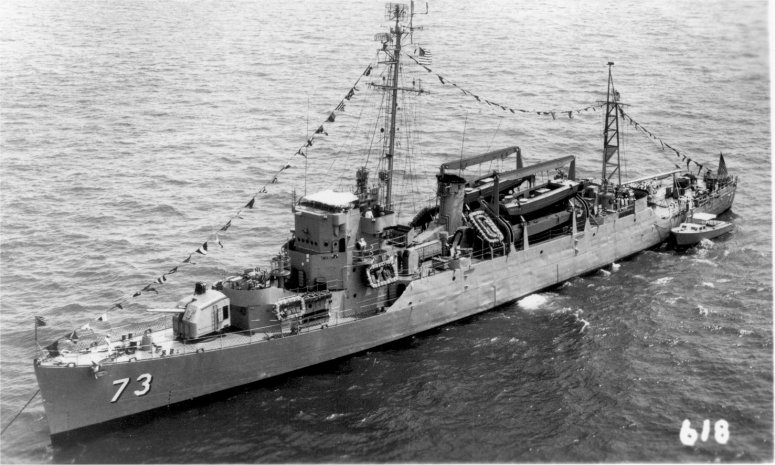 The U.S. Navy high-speed transport USS Bassett (APD-73) at anchor in the 1950s.